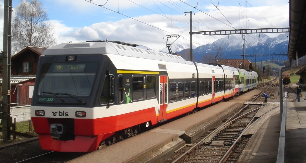 TNR NINA RABe 527 322-2 (later BLS NINA 038, now RegionAlps) leaving Thurnen station bound for Thun in MU with BLS RABe 525 012